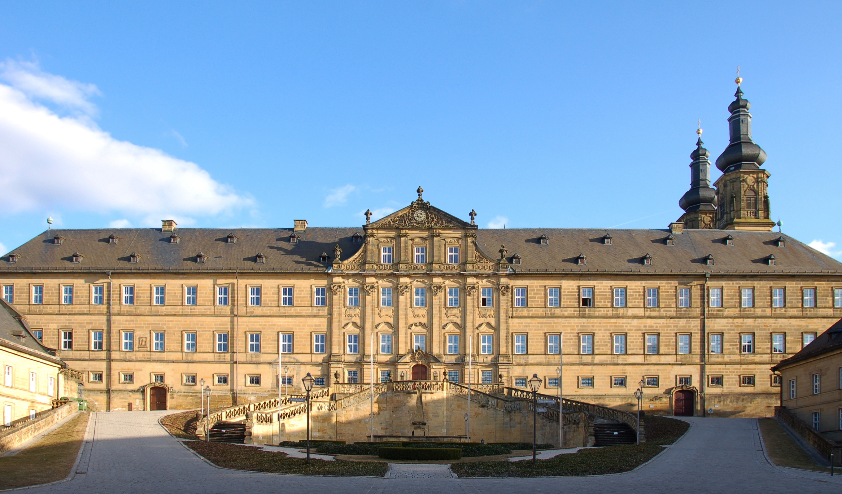 Banz Abbey; main building